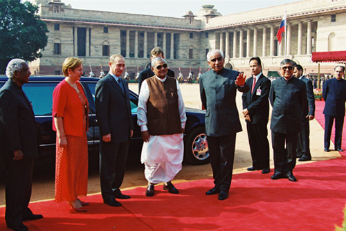 DELHI. With Indian Prime Minister Atal Bihari Vajpayee (centre), Indian President K.R.Narayanan (extreme left) and Indian Foreign Minister Jaswant Singh at the welcome ceremony at the Rashtrapati Bhavan Presidential Palace.